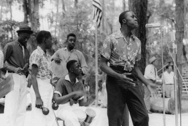 Local call number: fp51556 Title: [Students from New Douglas High School in Live Oak performing: White Springs, Florida] Personal Author: Leahey, Robert Date: Photographed in May 1958. Physical descrip: 1 slide : col. Series Title: ( Repository: 500 S. Bronough St., Tallahassee, FL 32399-0250 USA. Contact: 850-245-6700. Persistent URL